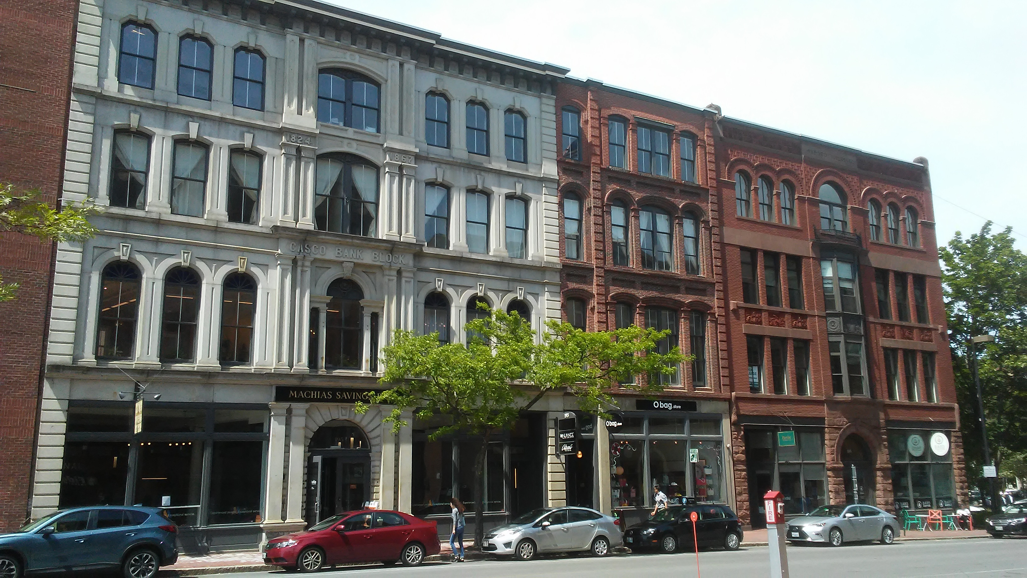 Casco Bank block in Old Port